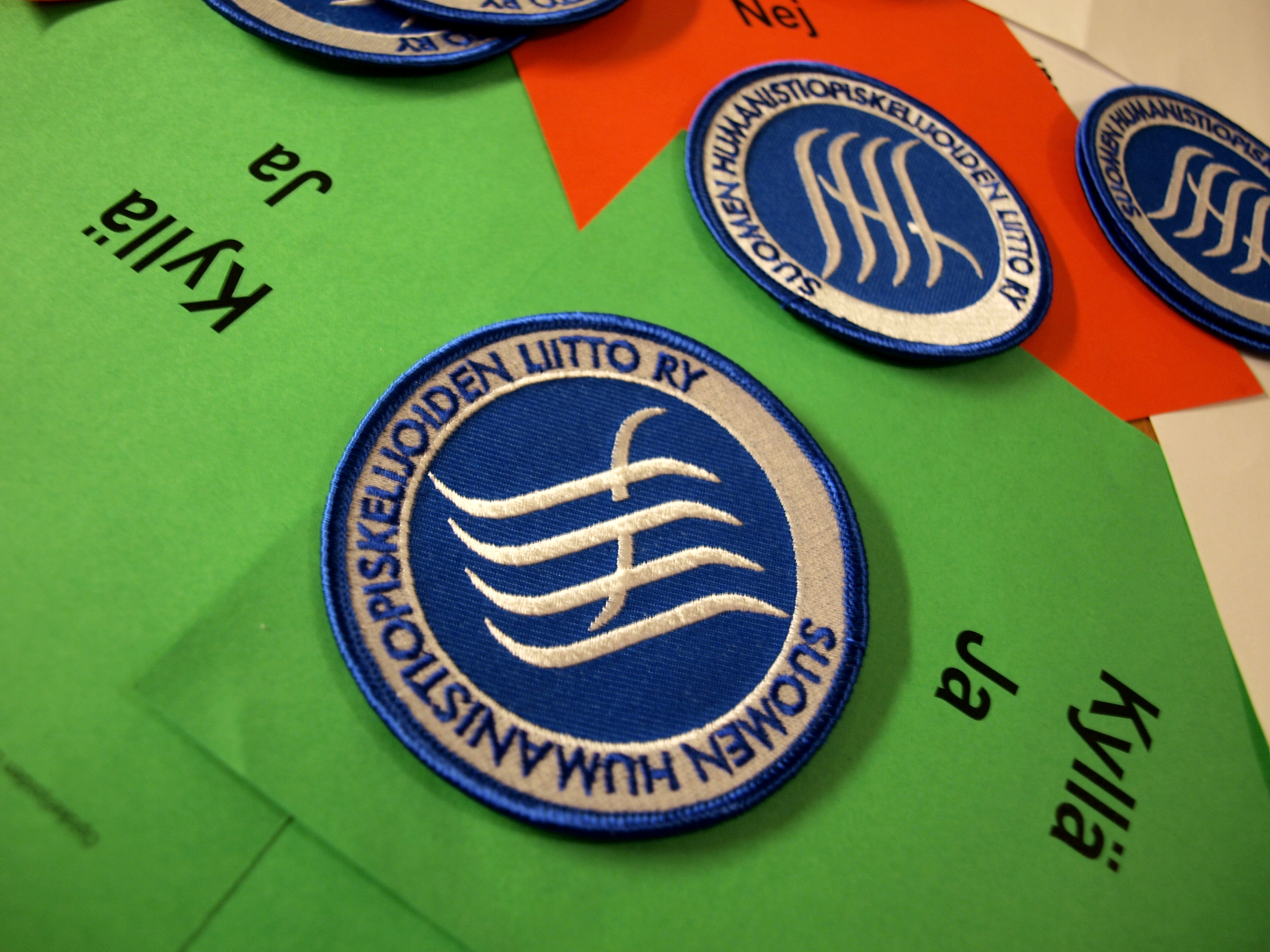 Voting documents and some suhol-badges.